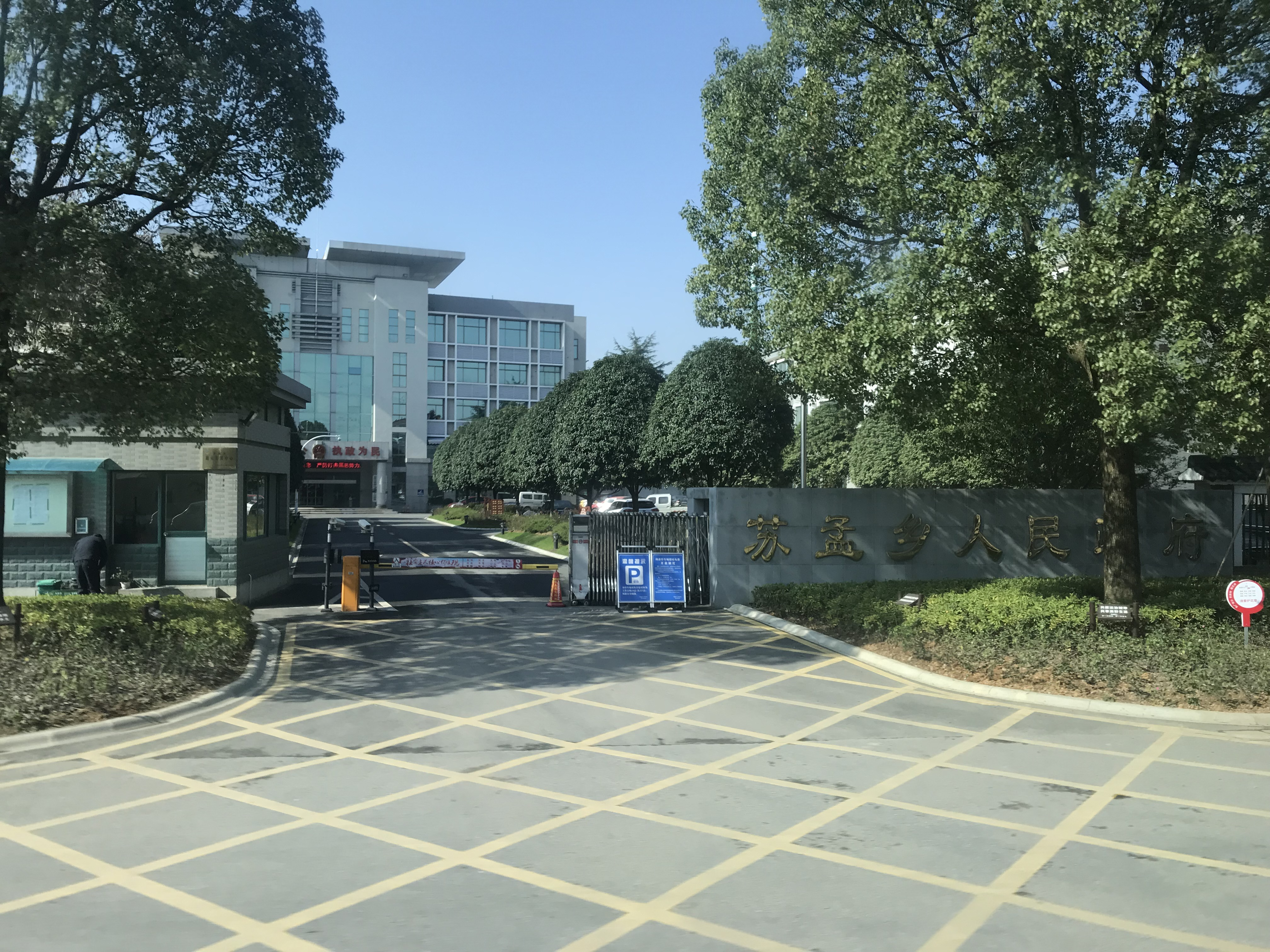 201812 Sumeng Township Government